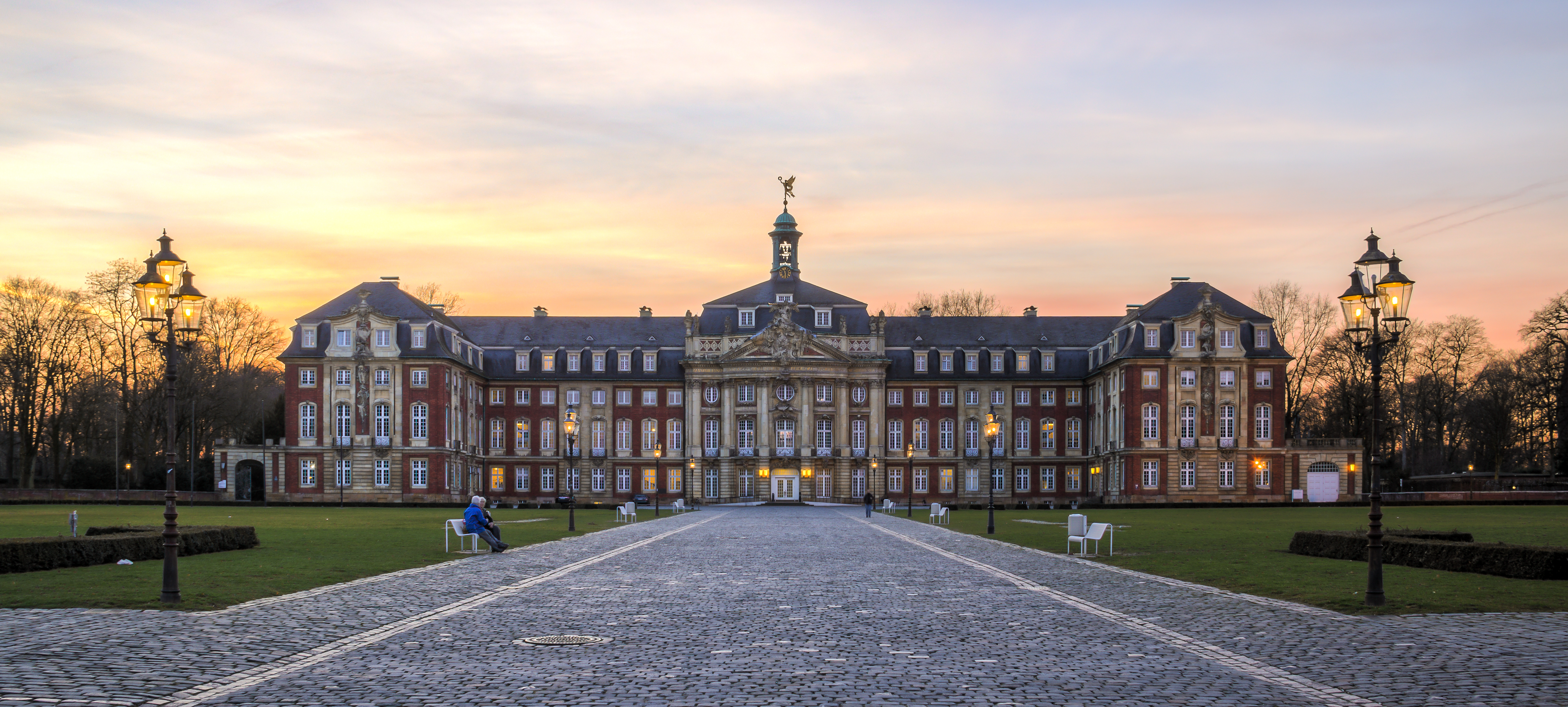 Prince Bishop's Castle Münster, Münster, North Rhine-Westphalia, Germany